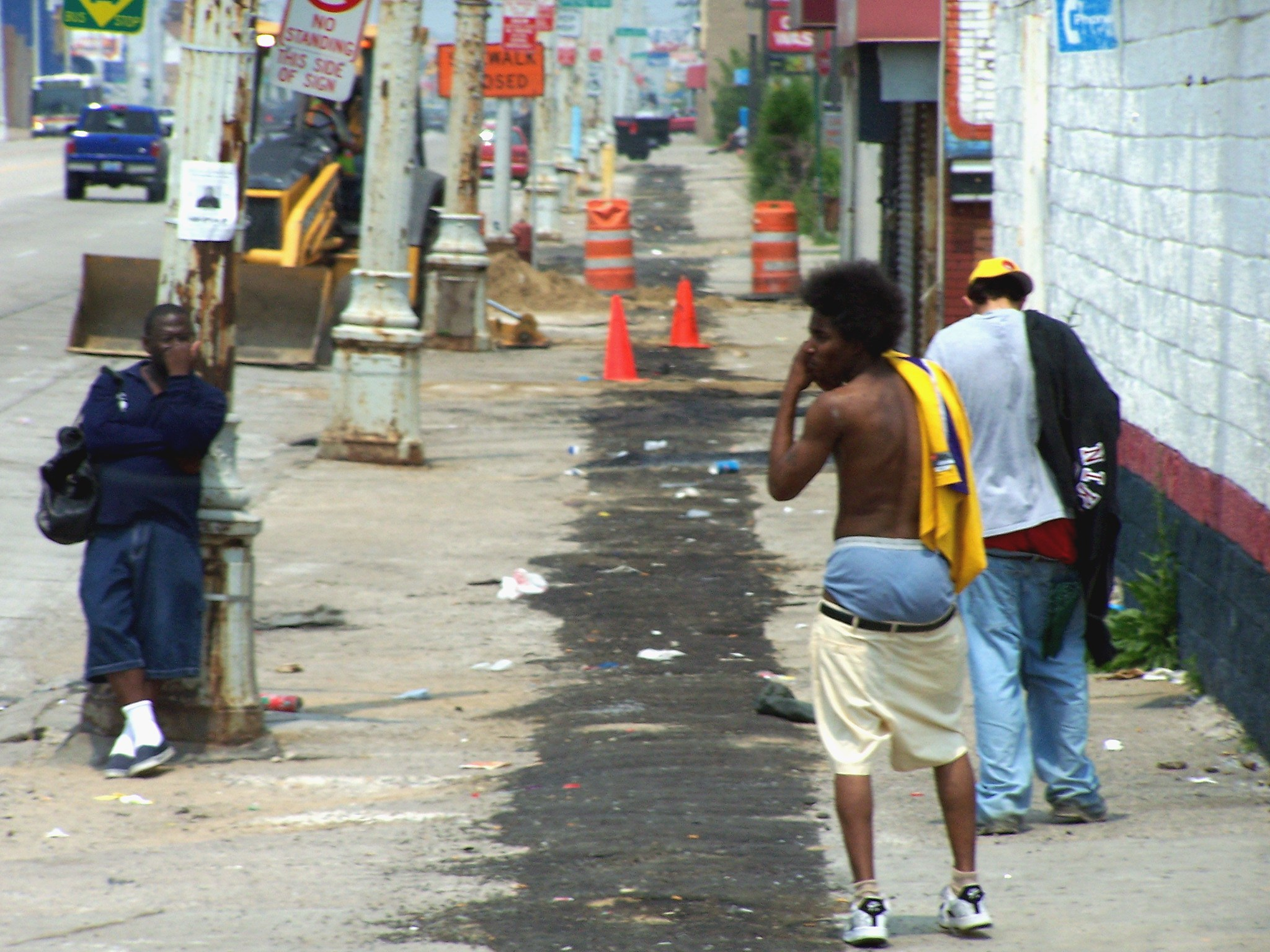 Gratiot Avenue in Detroit, Michigan (Summer 2007)